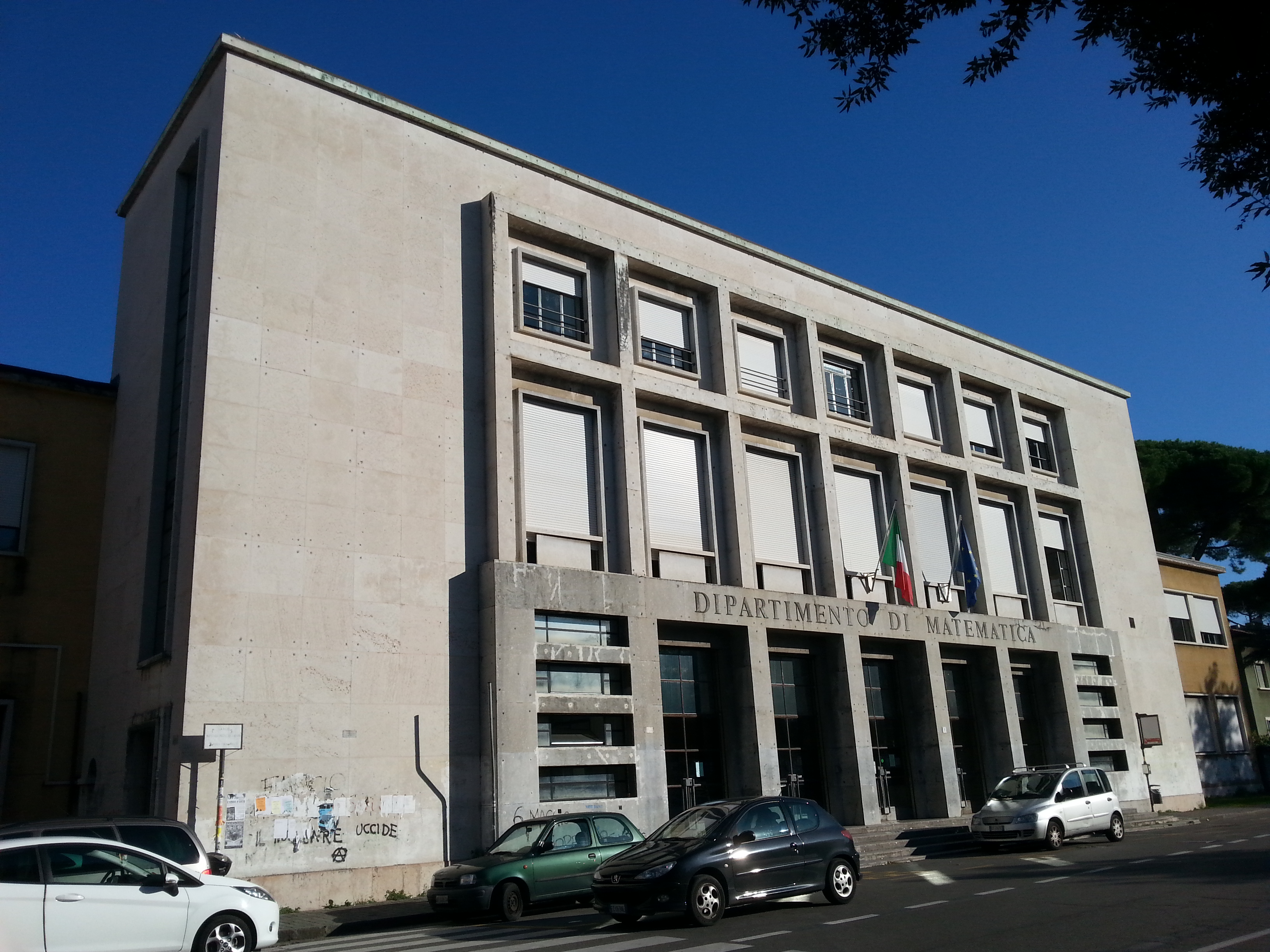 Former Marzotto textile plant (which now hosts some University of Pisa buildings) - Pisa, Italy